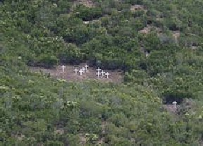 Photo of the Rattlesnake Fire of 1953 Memorial in the Mendocino National Forest, California